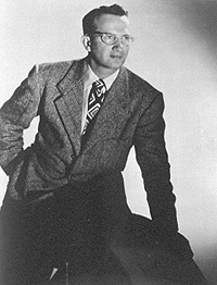 New York World-Telegram/Sun photo of musician and Capitol Records executive Paul Weston.